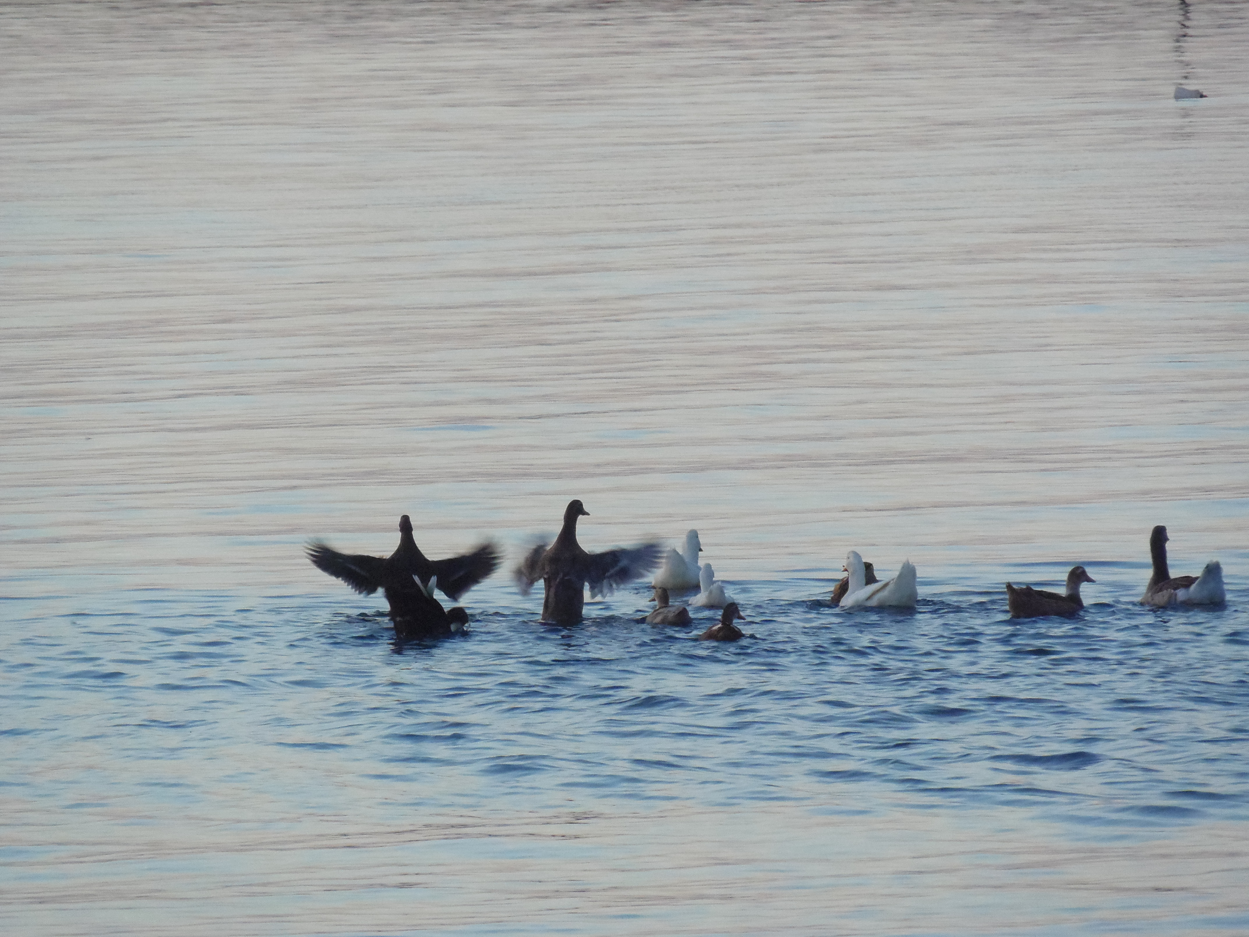 This is a photography of Natura 2000 protected area with ID GR1250001